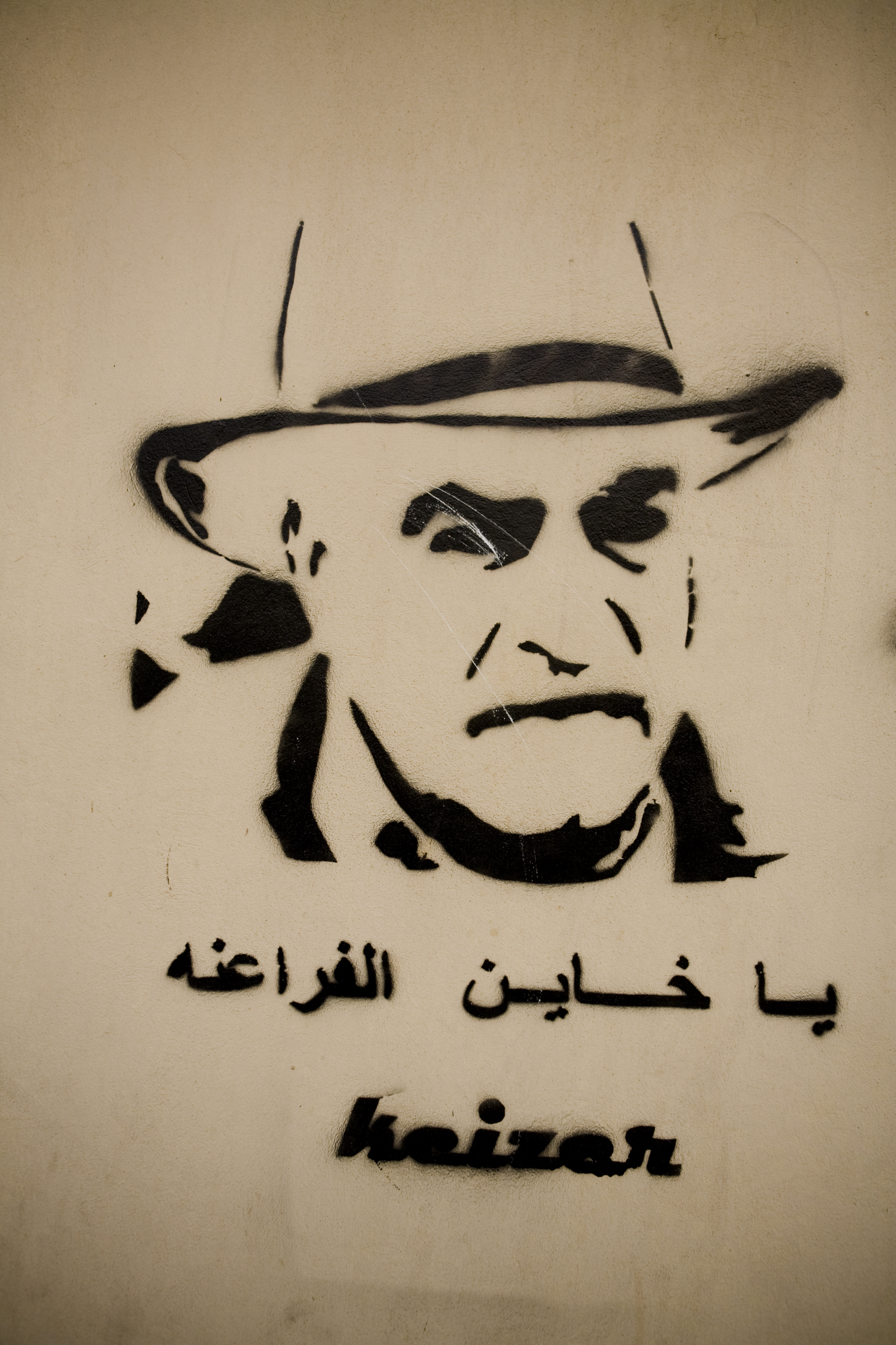 Revolutionary Graffiti at Saleh Selim Street, the island of Zamalek, Cairo, slamming former minister of antiquities Zahi Hawass.